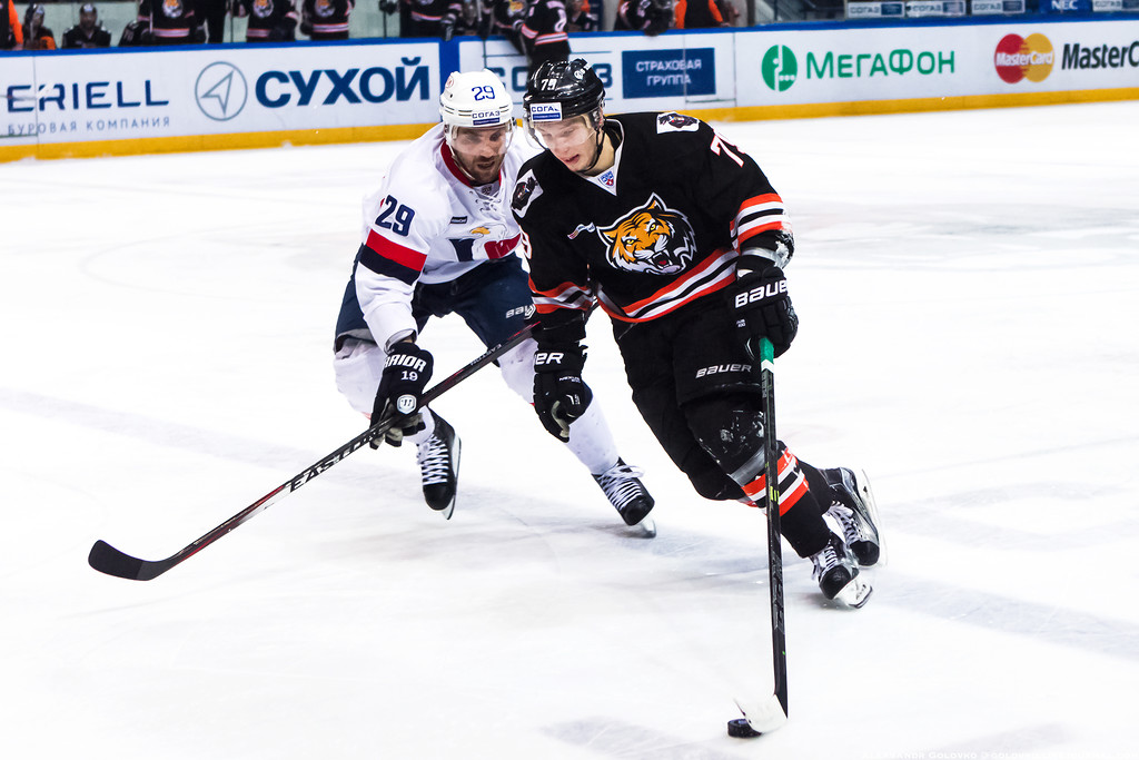 Amur Khabarovsk forward Vyacheslav Ushenin (in dark) and HC Slovan player Michel Miklík (in white) during KHL game on February 4, 2016.